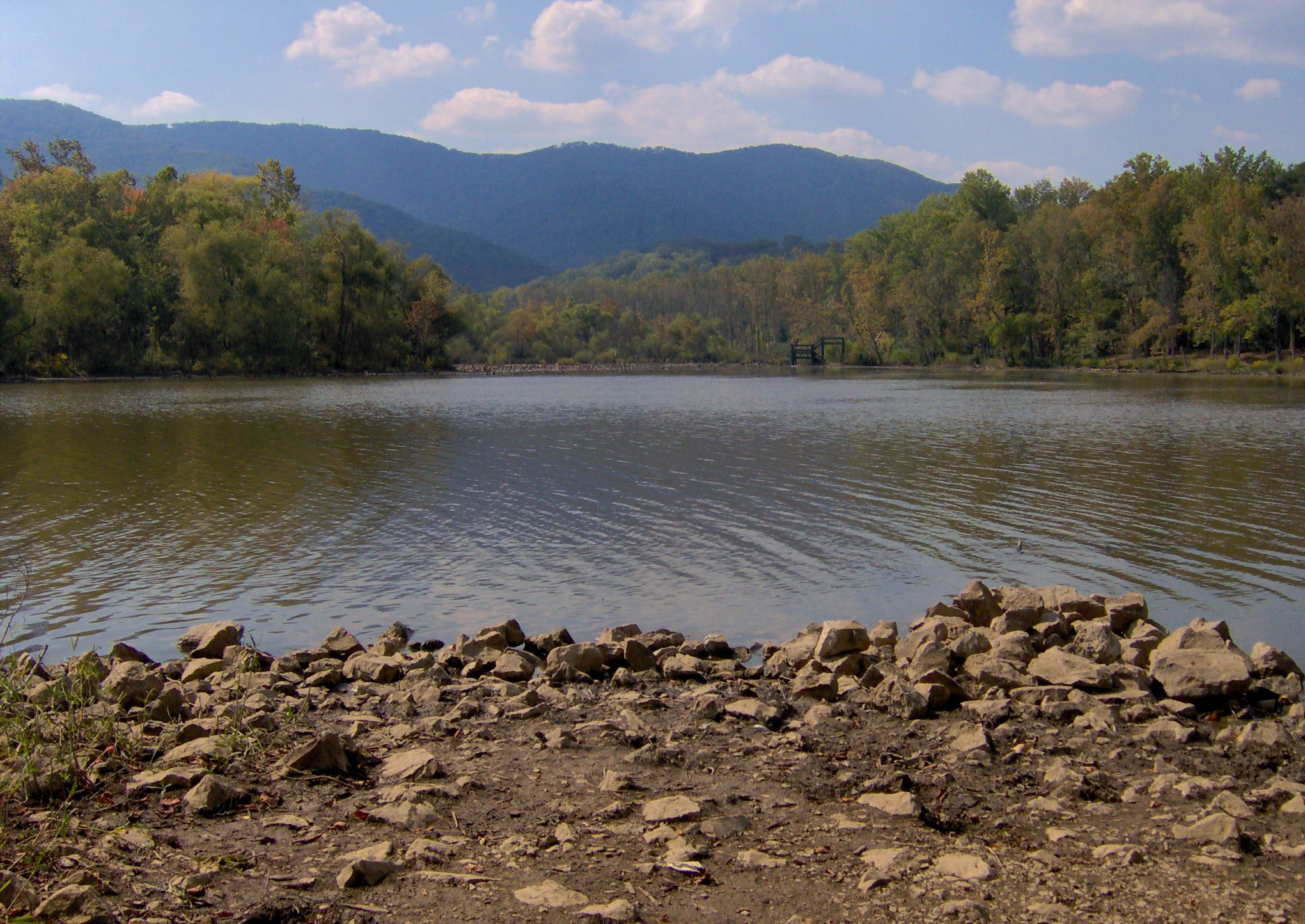 Cove Lake at Cove Lake State Park near Caryville, Tennessee, in the southeastern United States. Cross Mountain rises in the distance.